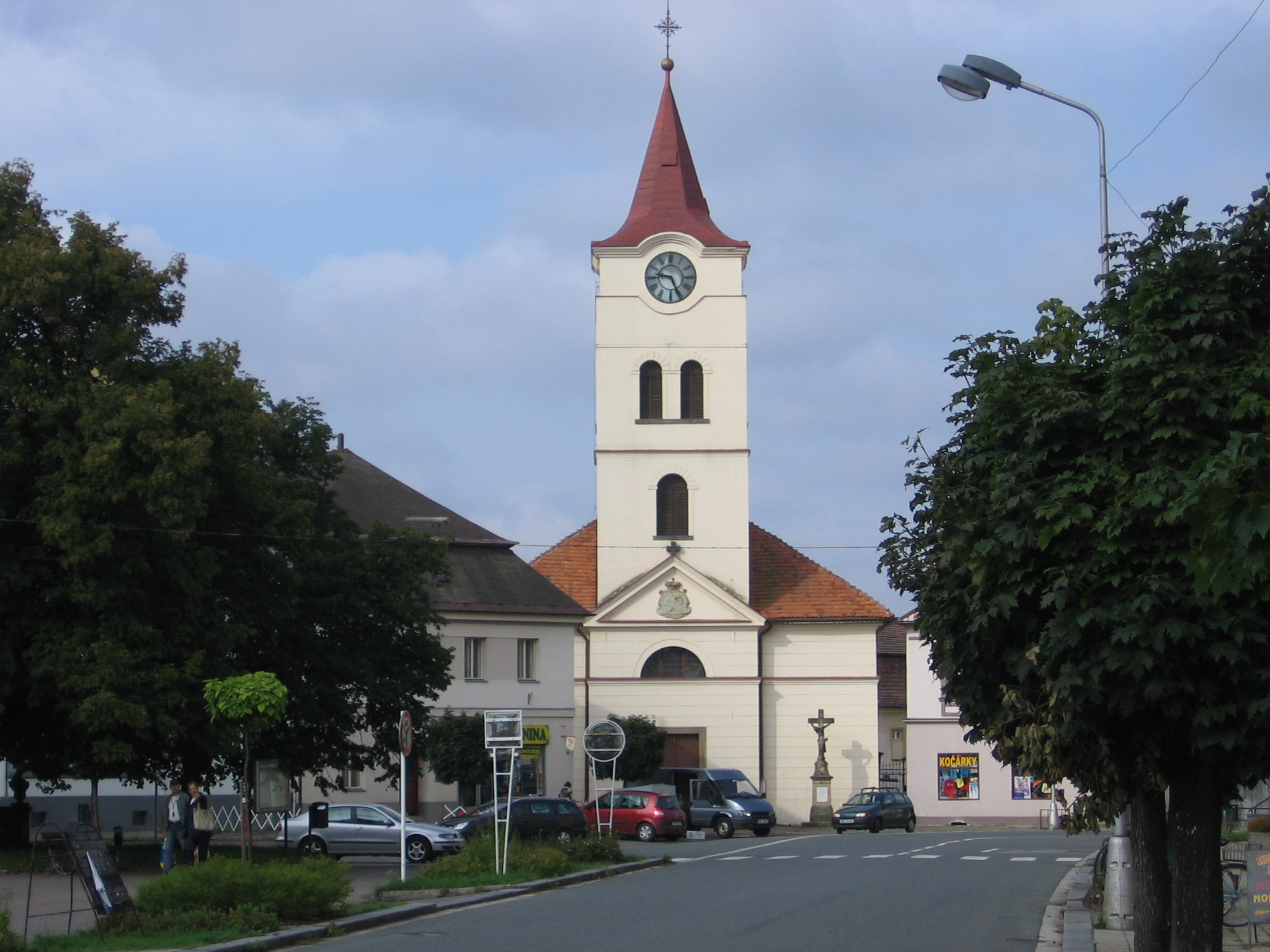 Church of St. Nicholas in Týniště nad Orlicí in the (Czech Republic)